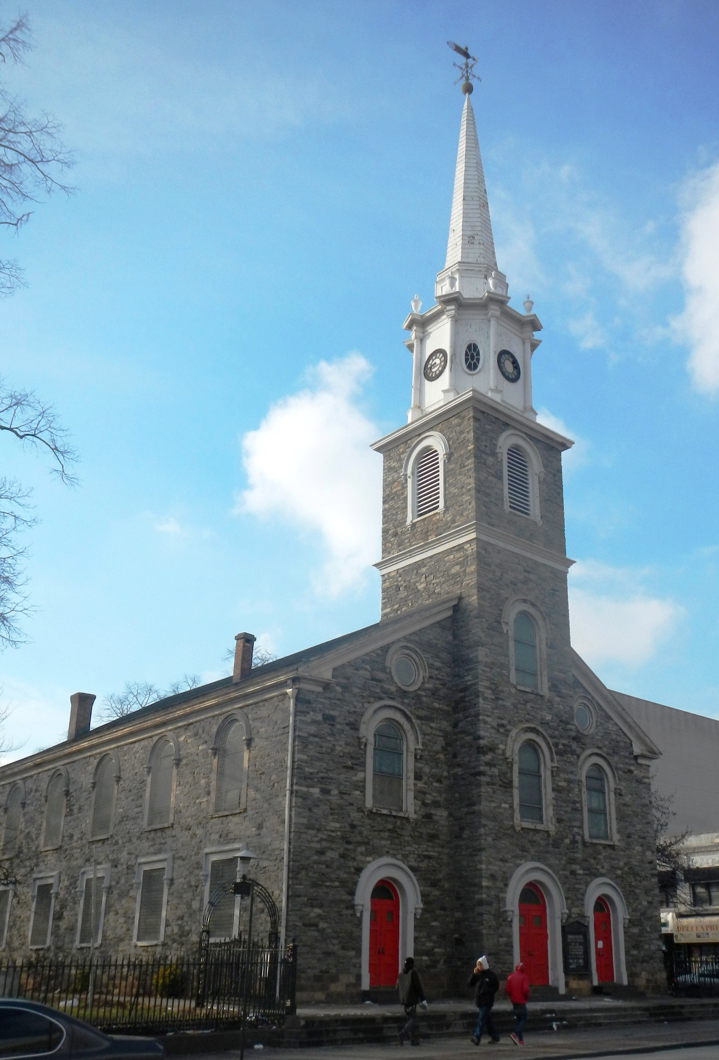 Looking northwest across Flatbush Avenue on a partly cloudy winter afternoon.